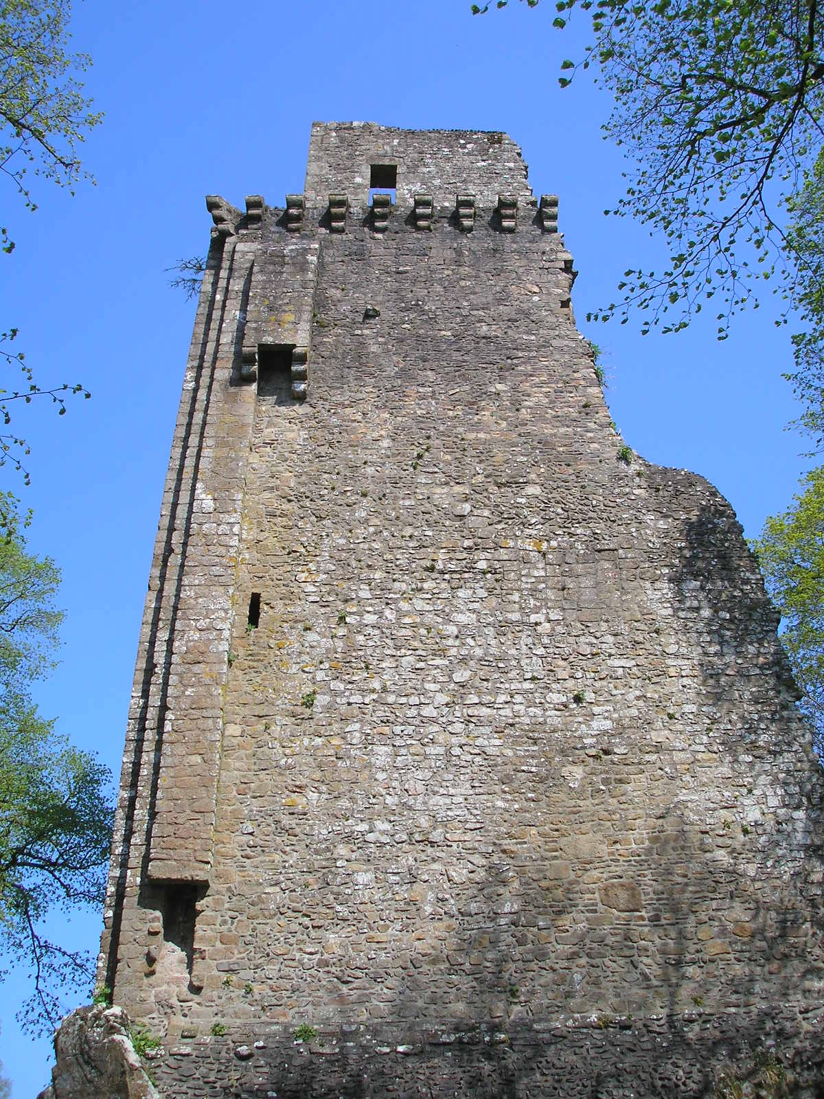 Vire (Normandy, France). The ruined medieval keep.